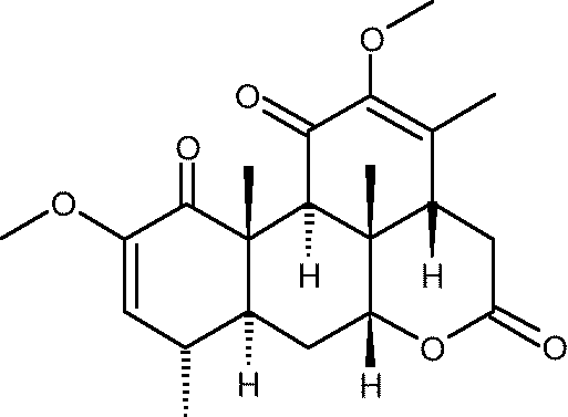 test image for WP:Chem. Created in ChemSketch 8.0 using 15.1 pt bond length, exported as WMF, converted to b/w PNG (300 dpi) using The Gimp.